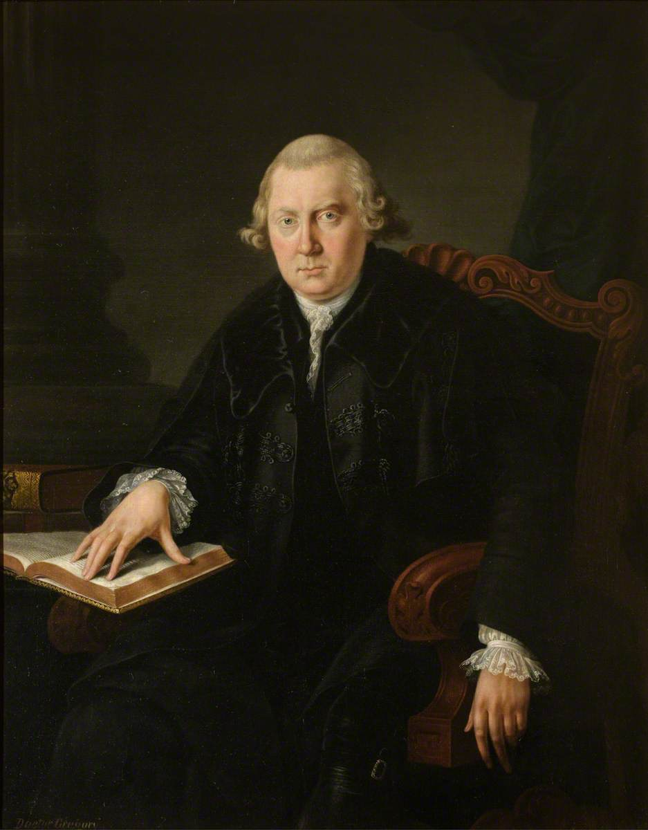 Dr John Gregory (1724-1773), three-quarter-length in blue coat seated, signed and dated.